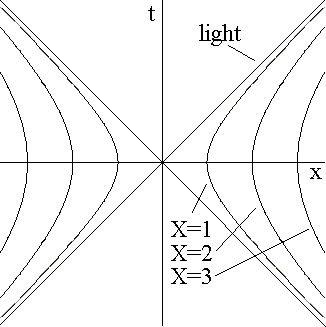 Accelerating Particles in Minkowski Space